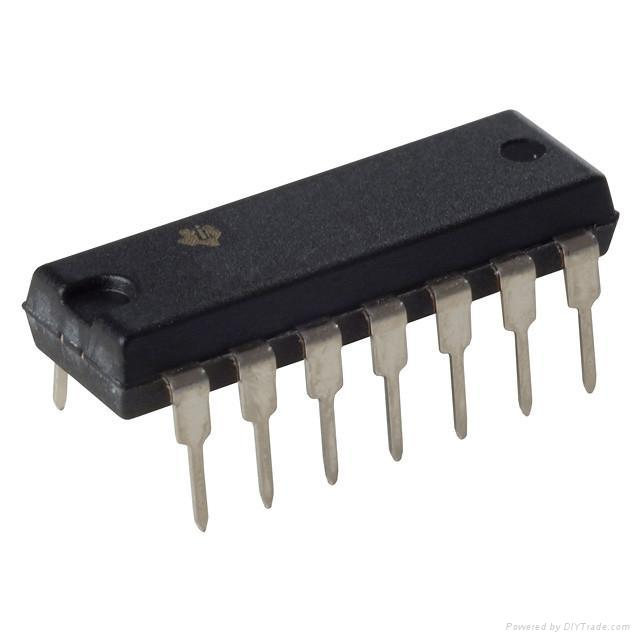 Пример интегрисаног кола.